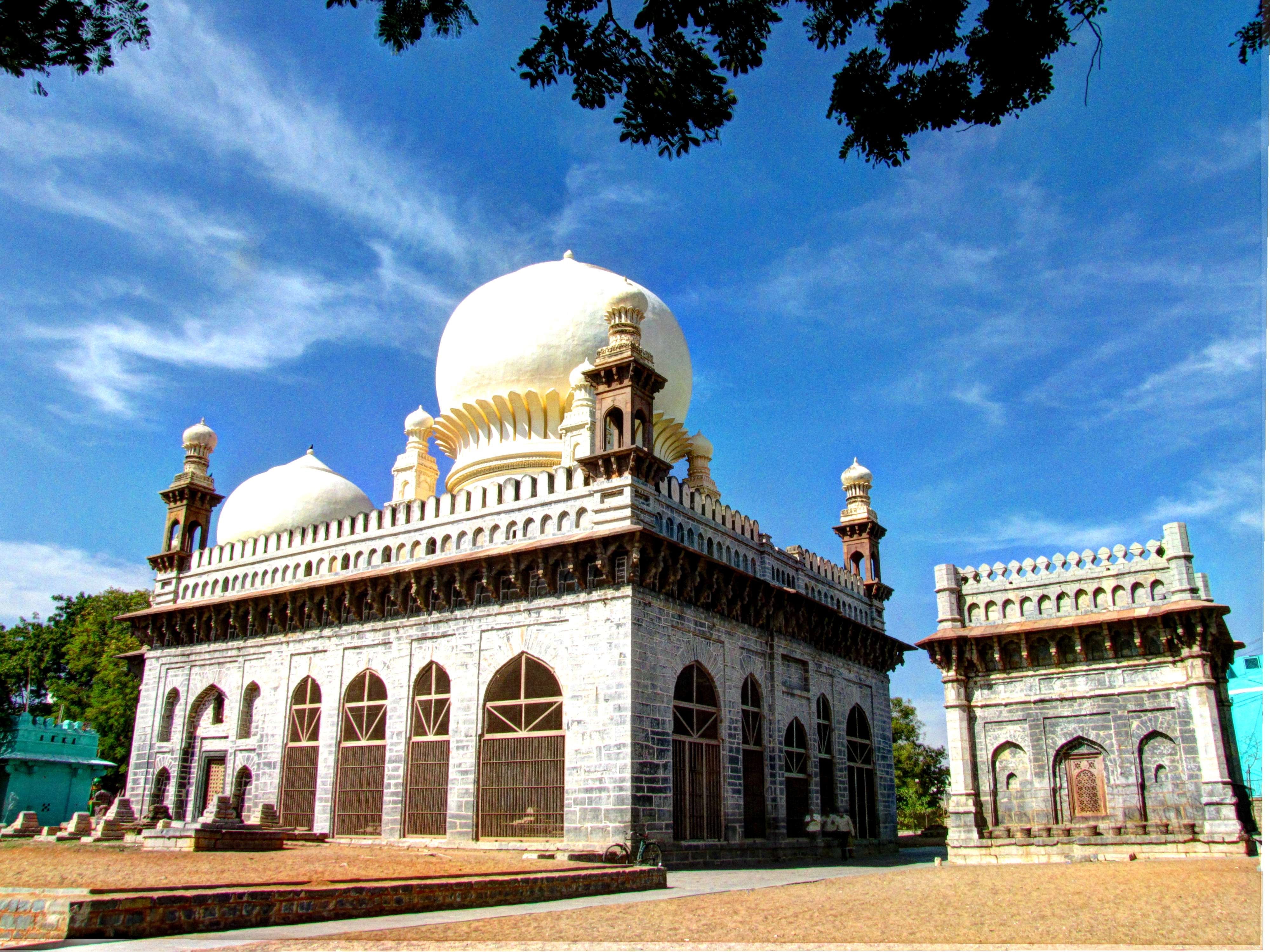 The mausoleum or tomb of The First Nawab of Kurnool Abdul Wahab Khan, The structure believed to have been constructed in 1618 after death of Abdul Wahab Khan.